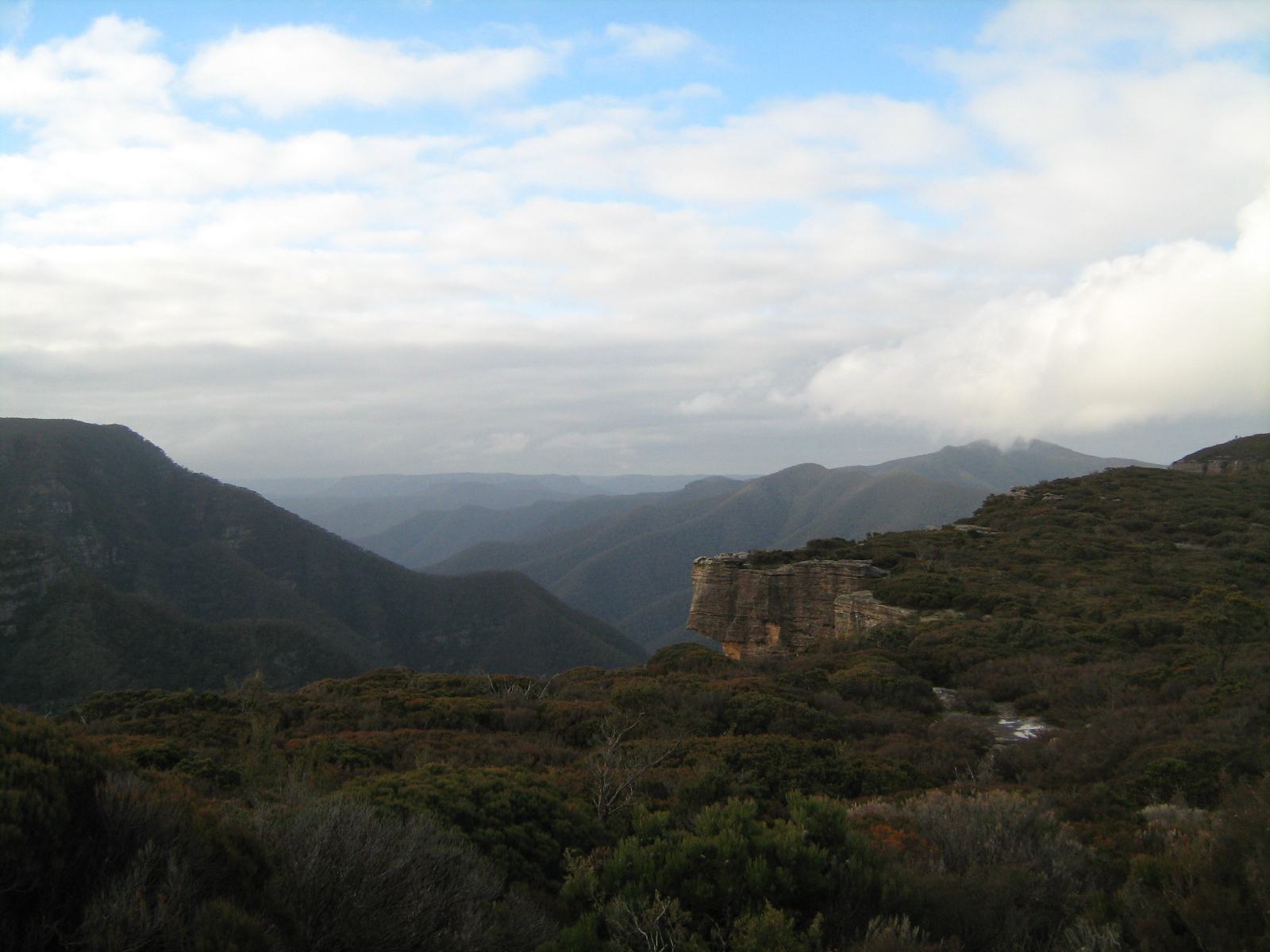 Kanangra Boyd National Park, NSW, Australia.